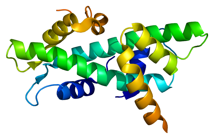 Structure of the NFYB protein. Based on PyMOL rendering of PDB 1n1j.